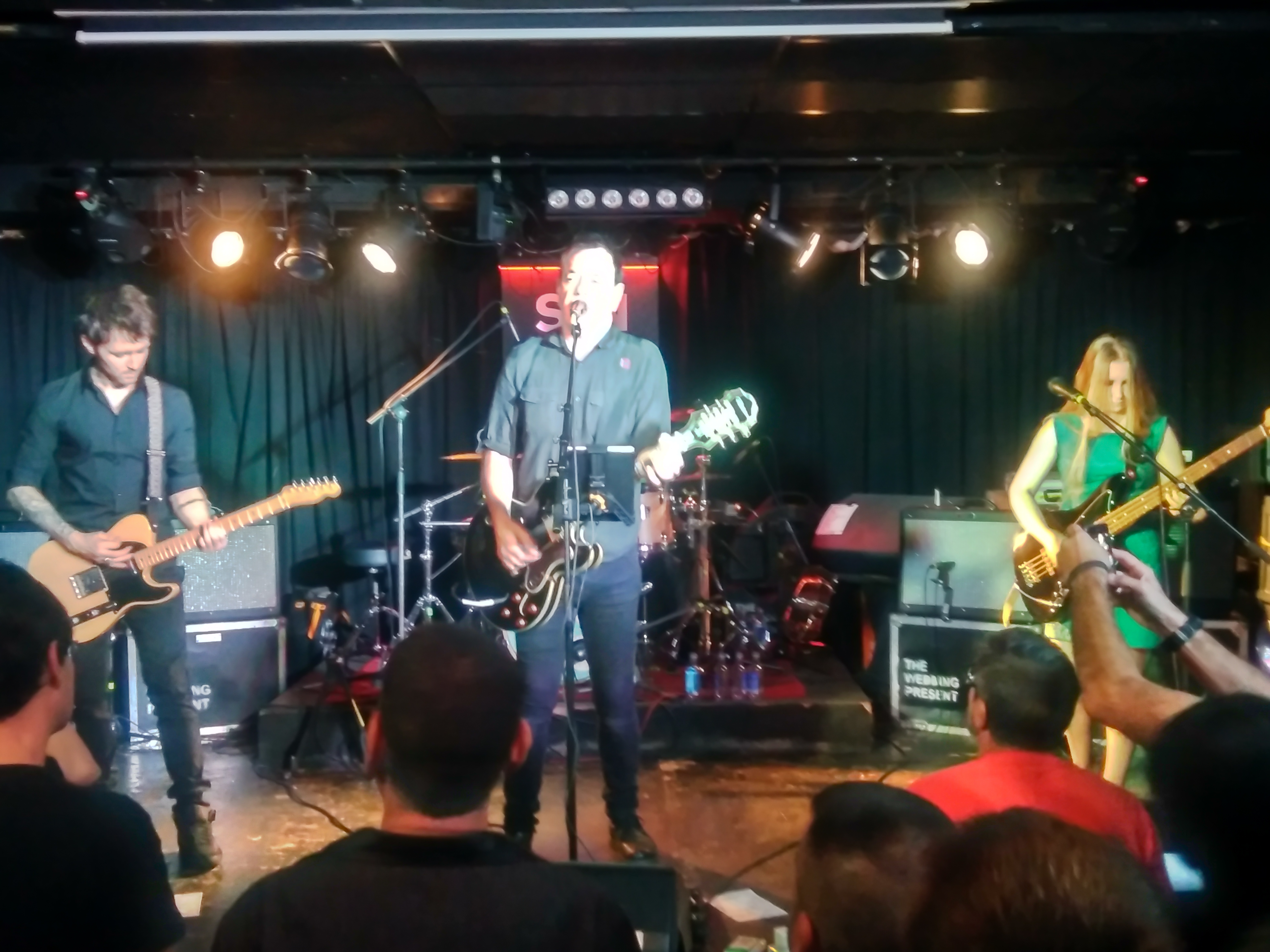 The Wedding Present performing at Loco Club in Valencia. November 2016.